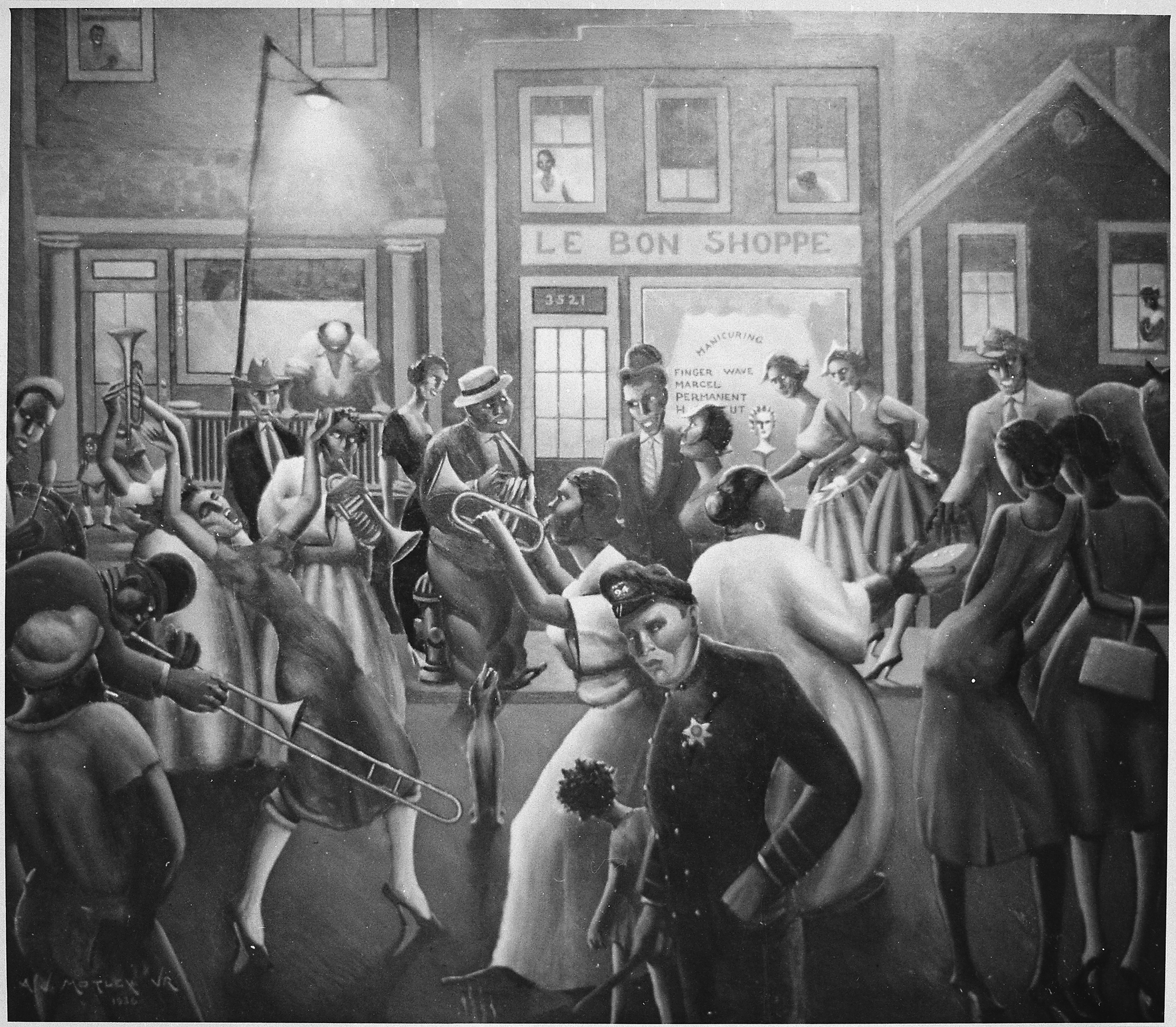 General notes: Painting.